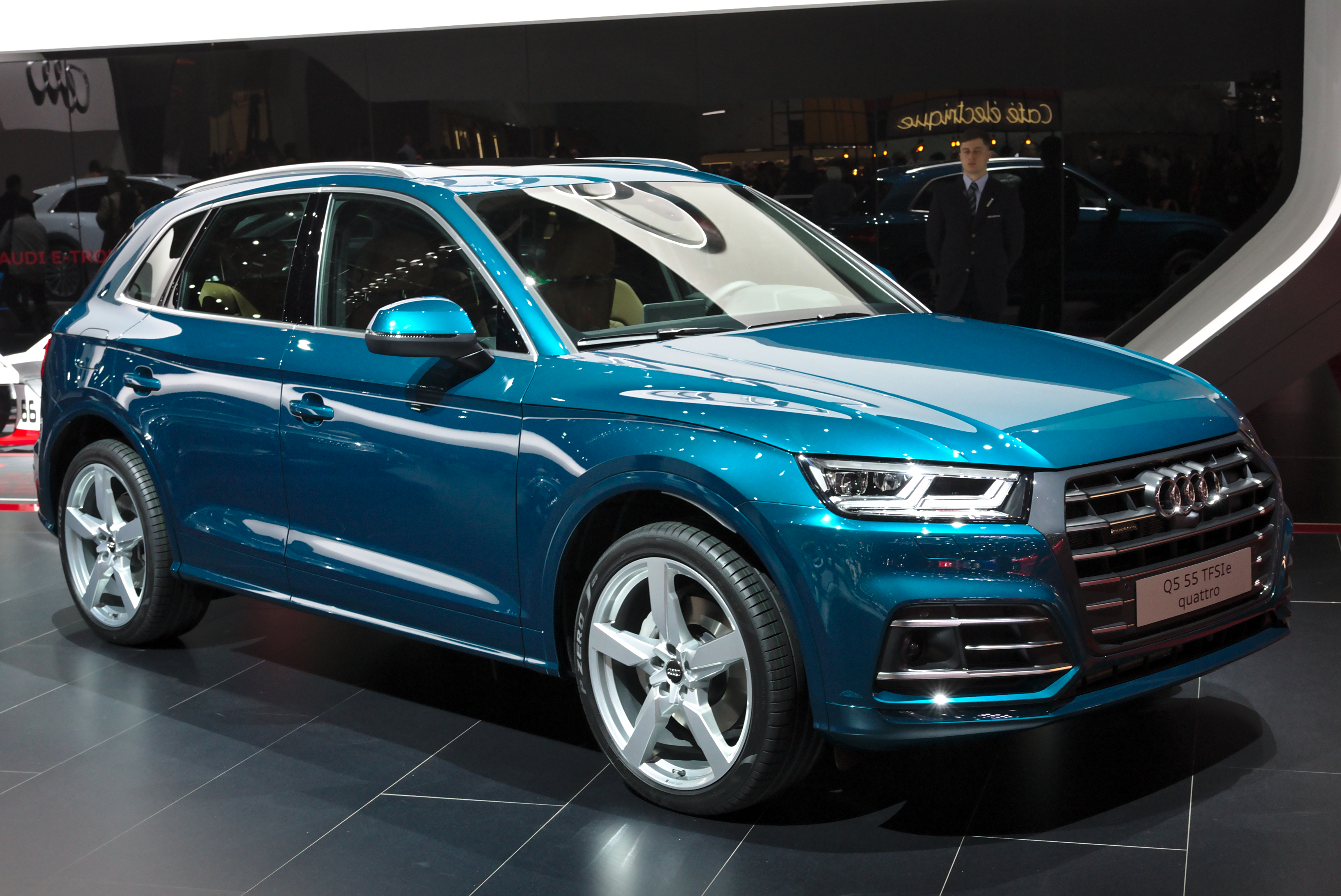 Audi Q5 55 TFSIe Quattro at Geneva Motor Show 2019